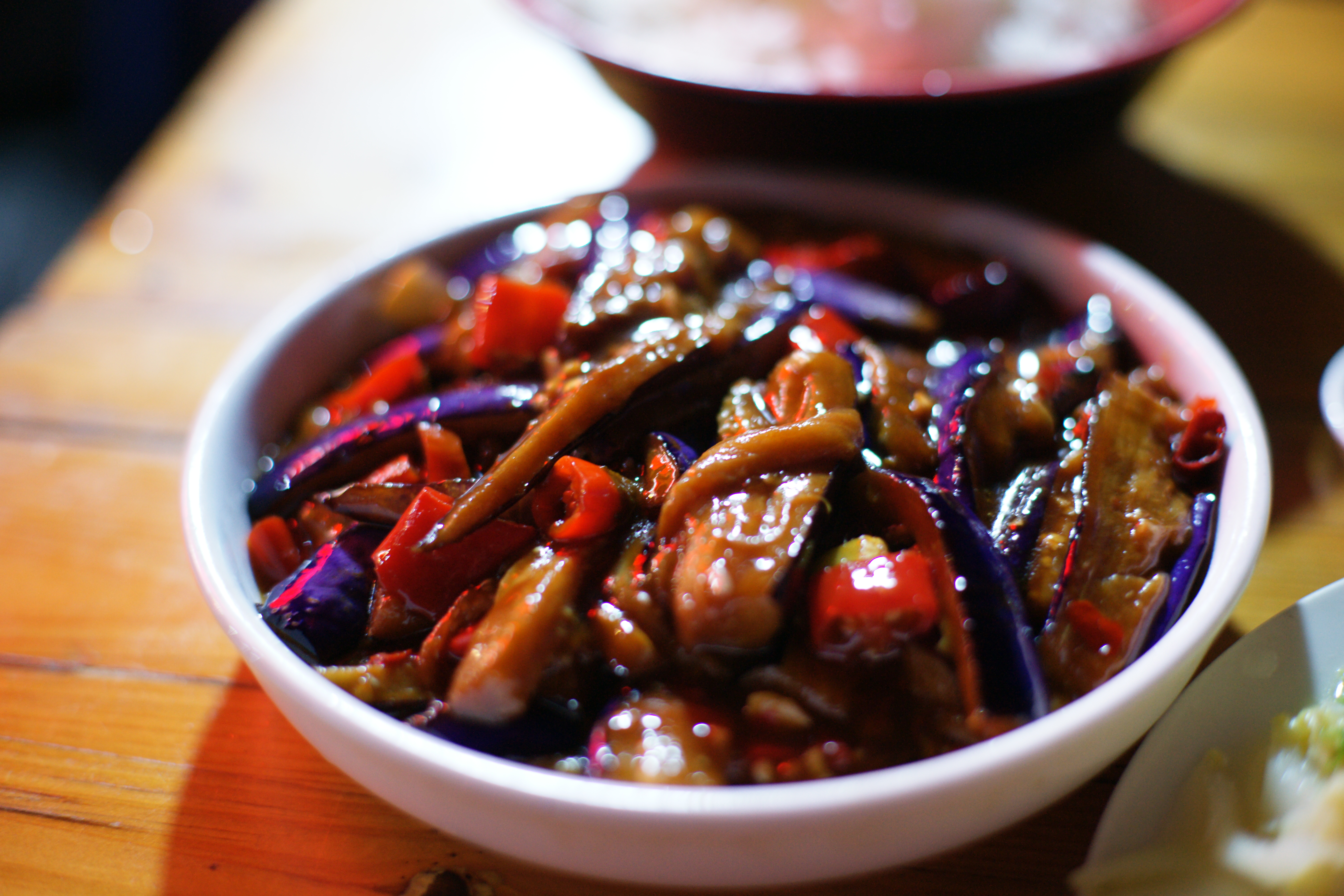 "Fish-fragrant" eggplants (Yuxiang Qiezi / 鱼香茄子) a famous dish from Sichuan province in China.